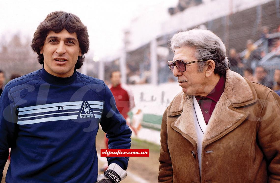 Ubaldo Fillol and Angel Labruna, goalkeeper and coach of Argentinos Juniors.